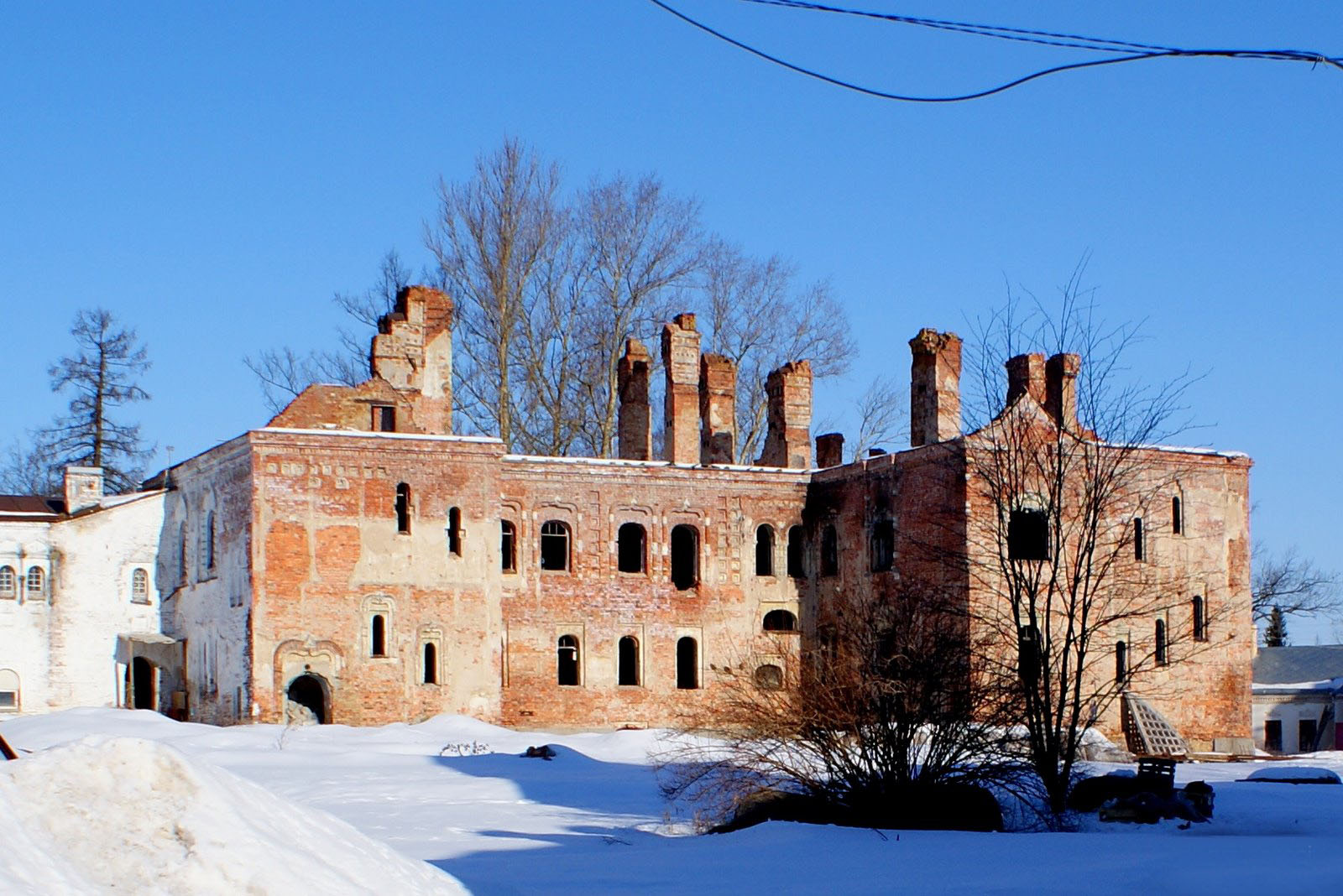 Feodorovsky gorodok in Tsarskoye Selo. The House of priests. Courtyard view.